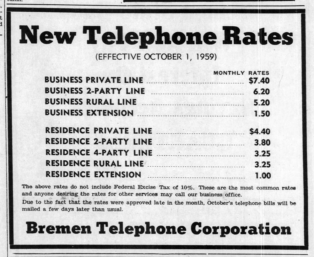 1959 rates for telephone lines in Indiana. Residential subscribers could choose a private line or a line shared by 2 or 4 parties.